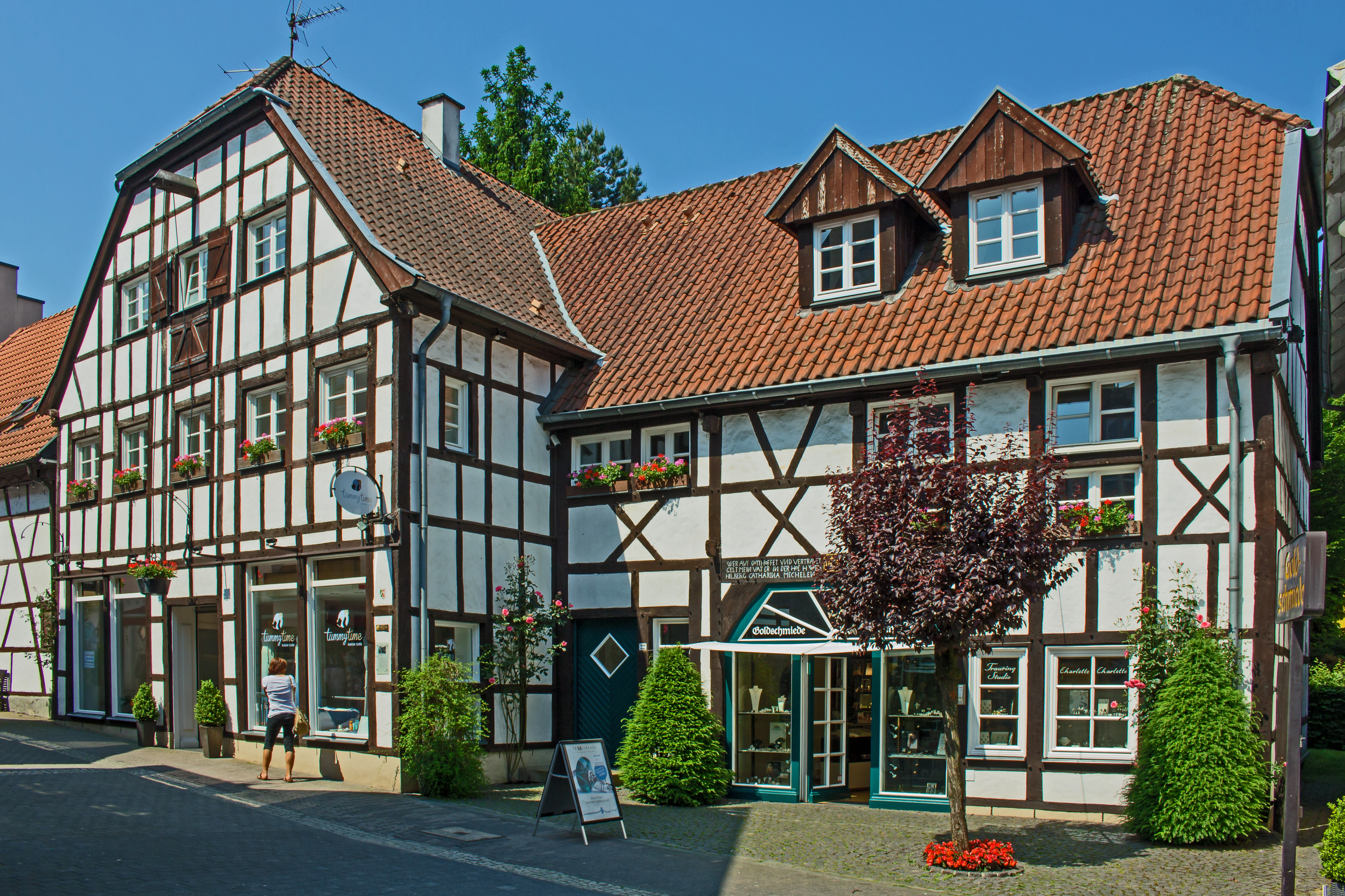 half-timber house in the "Krim"-neighbourhood of Recklinghausen - Recklinghausen, North Rhine Westphalia, Germany